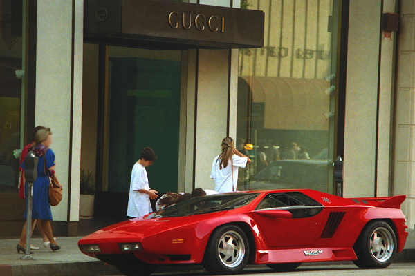 window shopping in Beverly Hills, California, USA, Vector W8 on Rodeo Drive